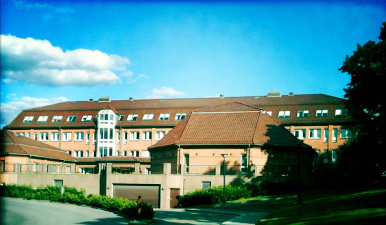 Sarpsborg city council